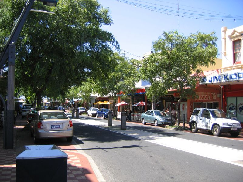 The main street (Victoria Street) in Bunbury, a small city in Western Australia between Perth and Margaret River.